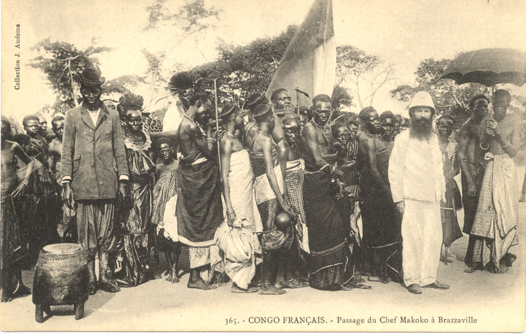 Congo Français [postcard] : Congo Français - Passage du Chef Makoko à Brazzaville Contained in: Postcard Collection, 1898-[ongoing] Phy. Description: postcard : b&w ; 9 x 14 cm. Produced: [ca. 1905] Summary: Translated caption reads: French Congo. A stopover of Chief Makoko in Brazzaville. Leader in uniform with tribe. French flag in the background. Congo Français. Photograph by J. Audema General Note: Title source: Postcard caption. Image indexed by negative number. Subject-Topical: Leaders Subject - Geographical: Congo (Brazzaville) Form / Genre: Postcards Repository Loc: Smithsonian Institution, National Museum of African Art, Eliot Elisofon Photographic Archives, 950 Independence Avenue, S.W., Washington, DC 20560-0708 Local Number: EEPA 1985-140075